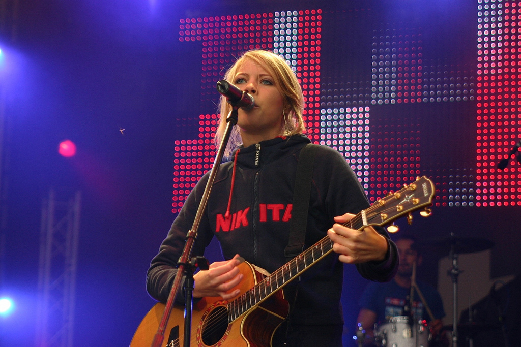 Lunik, a trip-hop band from Switzerland, JUMP Arena, Plauen